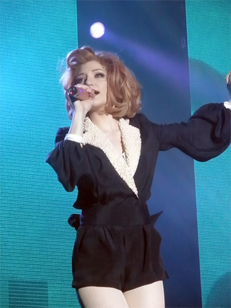 Nicola Roberts of Girls Aloud performing in Manchester on 2009's Out of Control Tour